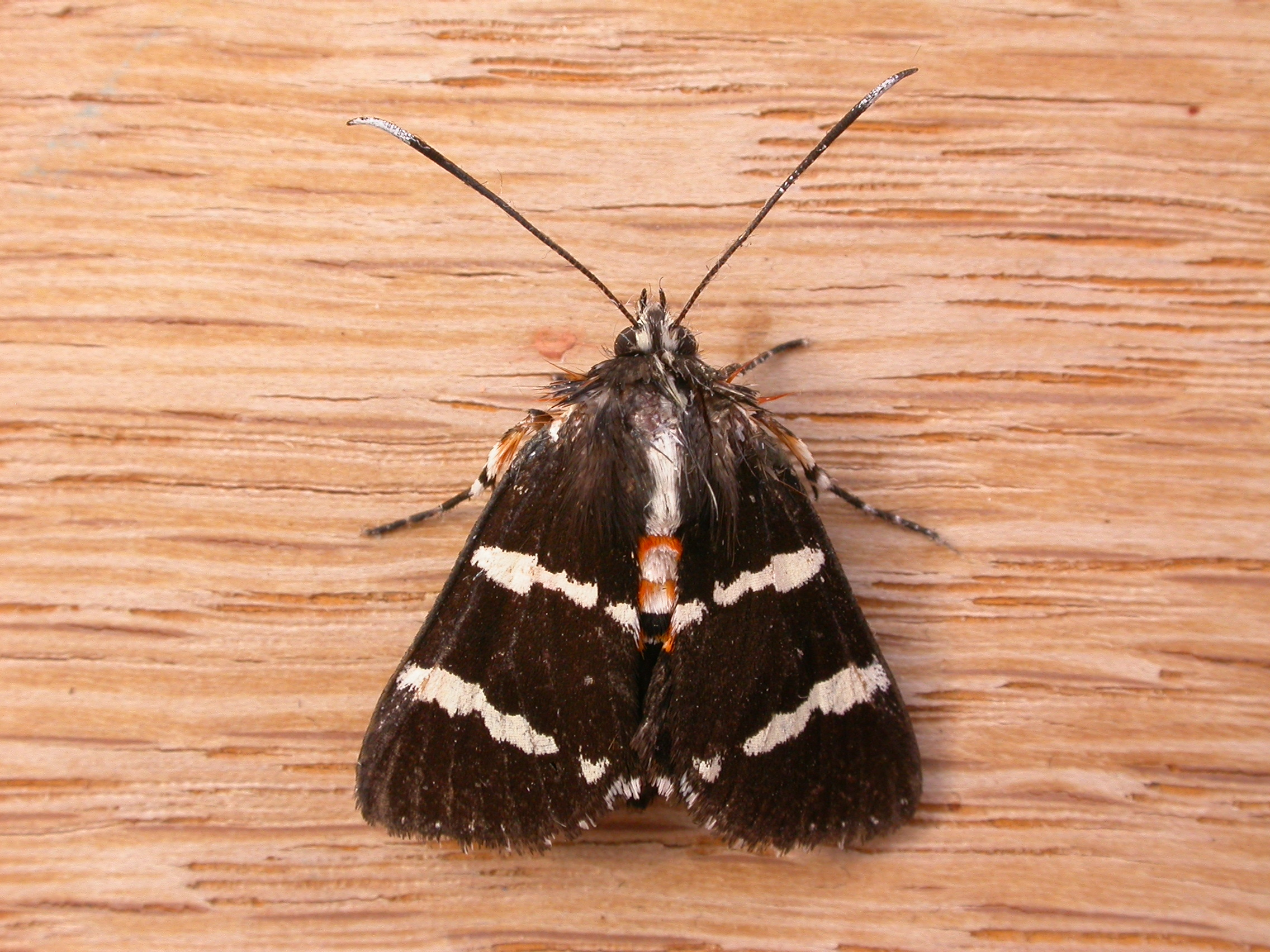 Hecatesia fenestrata Boisduval, 1828, female, Aranda, ACT, 17 December 2010